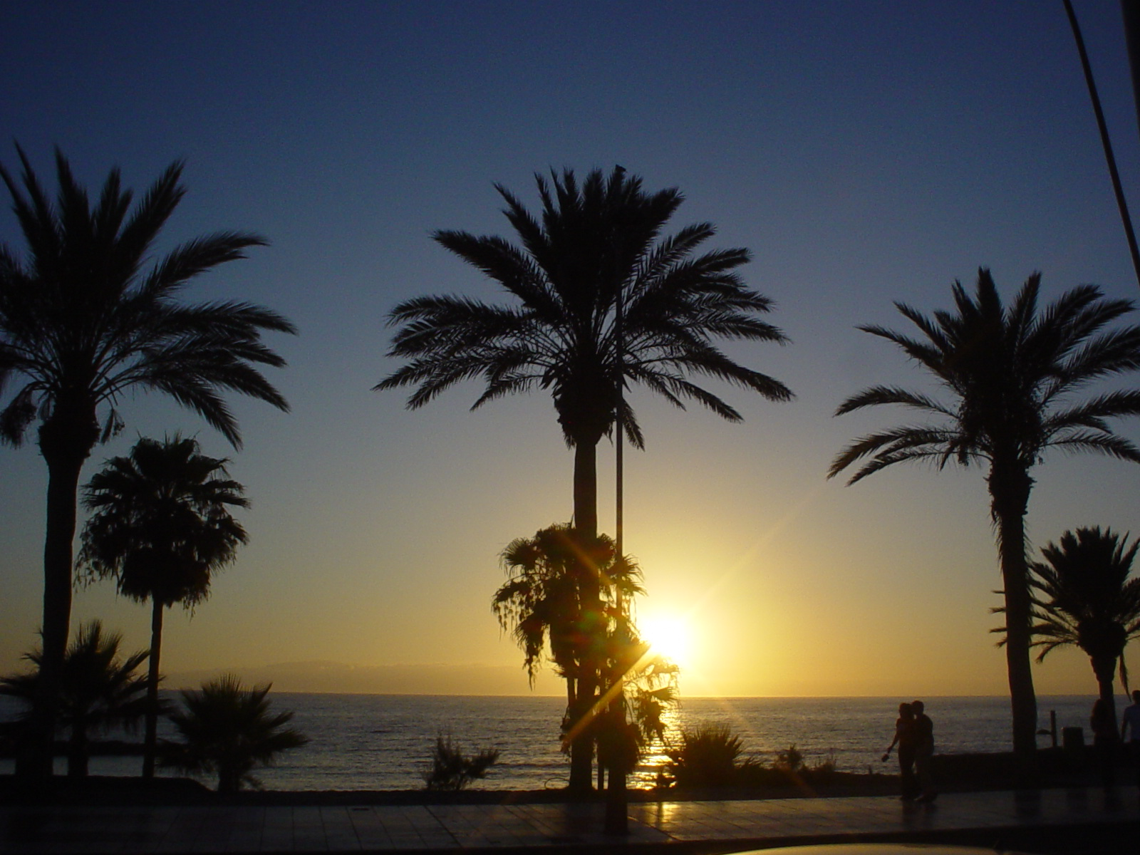 kirkjimmy I took this photo myself and I am putting it in the public domain sunset las americas tenerife